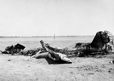 The wreckage of a plane from 5 Service Flying Training School (5SFTS) RAAF, which crashed at Uranquinty, NSW, on 26 March 1945. Two members of the training school, 409419 Warrant Officer (WO) Lloyd Morrish Loftus, of Caulfield, Vic; and 409613 WO John David Tamlyn, of East Malvern, Vic, were killed in the accident.